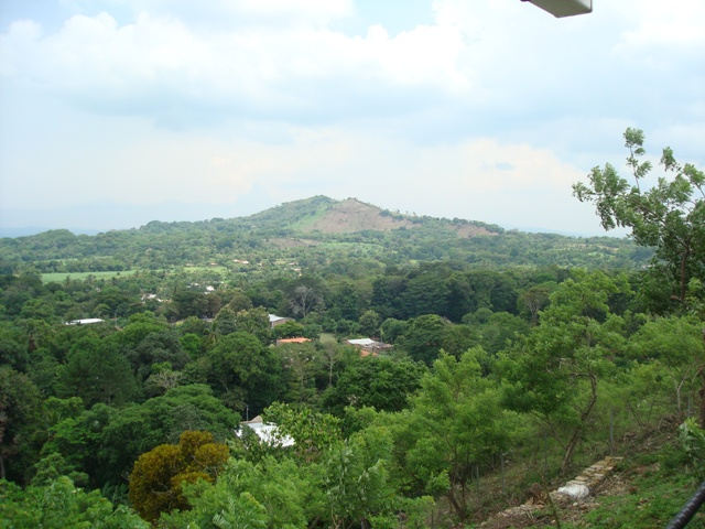 Panoramic View of Mountain "Los Coyotes"